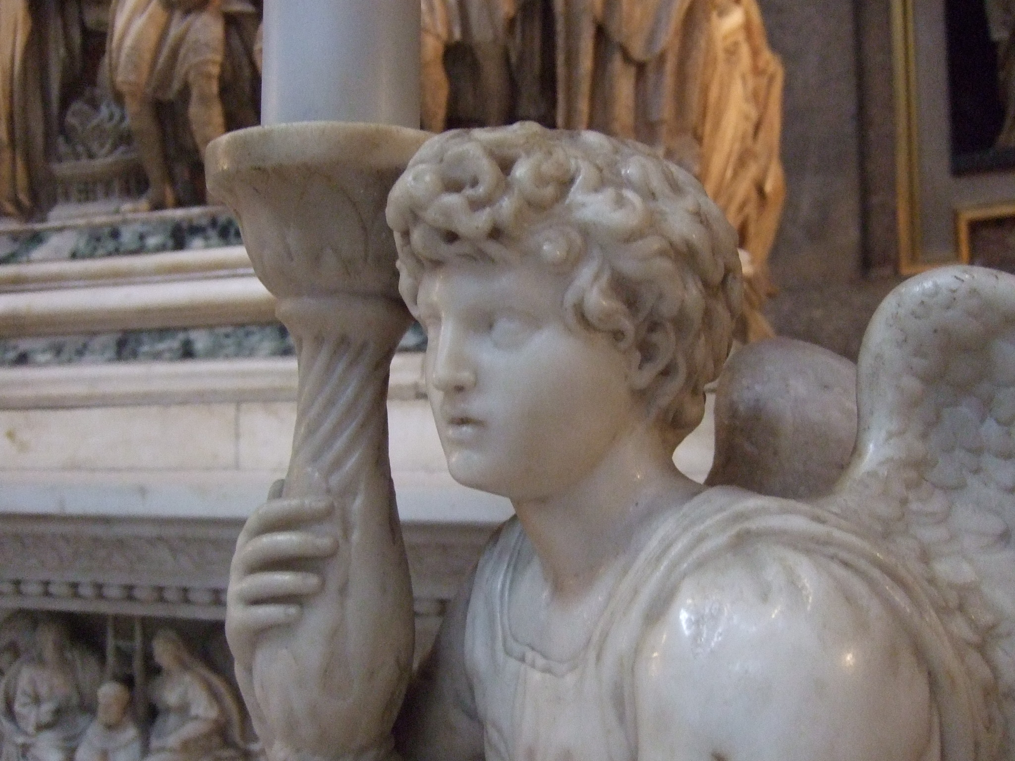 Angel (1494) by Michelangelo on the Shrine of Saint Dominic, Basilica of Saint Dominic, Bologna, Italy